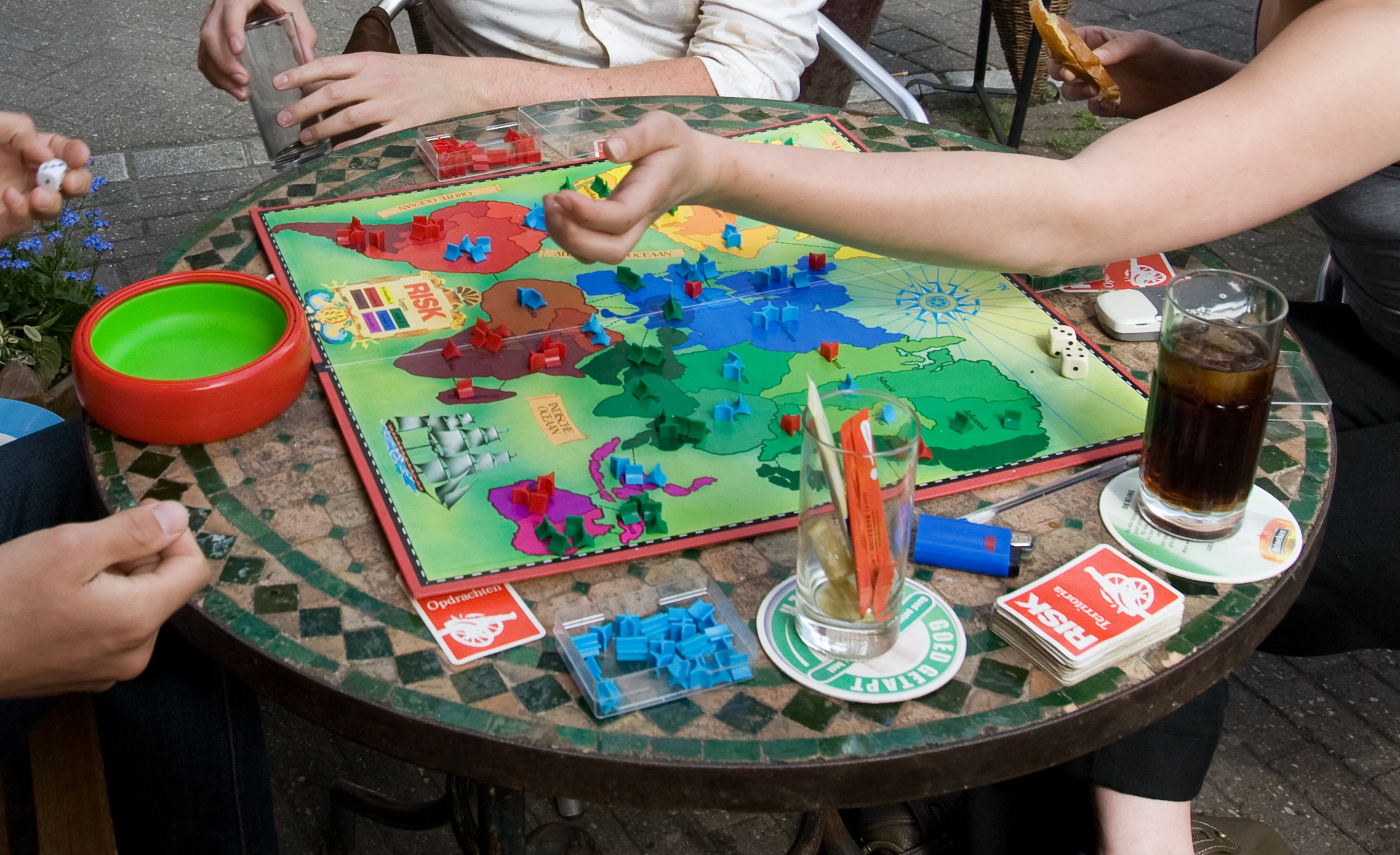 Young group playing RISK in a street cafe. Amsterdam, The Netherlands